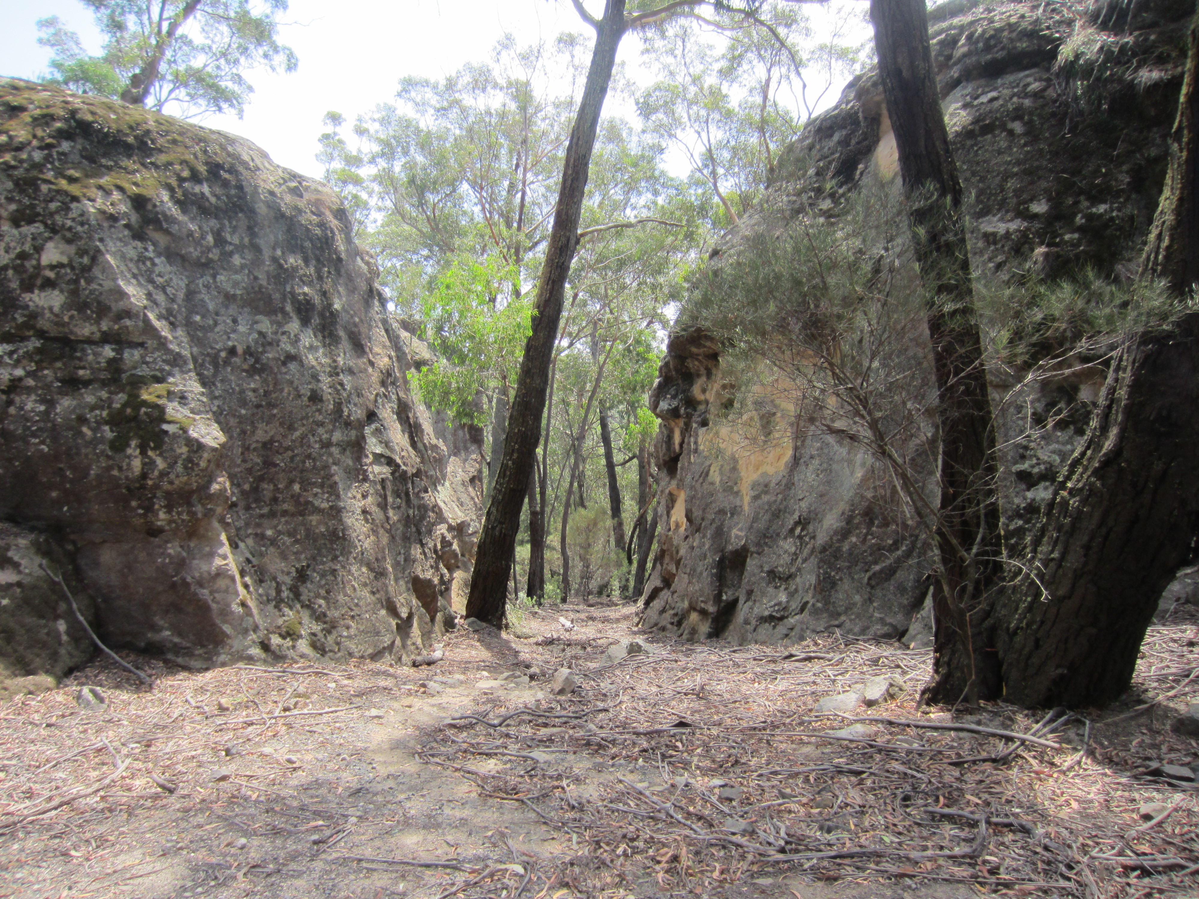 Bulee Gap on 1841 route of The Wool Road viewed from where the 1841 road merged with the later 1856 road (looking north). The cutting is man-made and was created by blasting a gap through the sandstone rock formation. The road was built using convict labour during 1841.